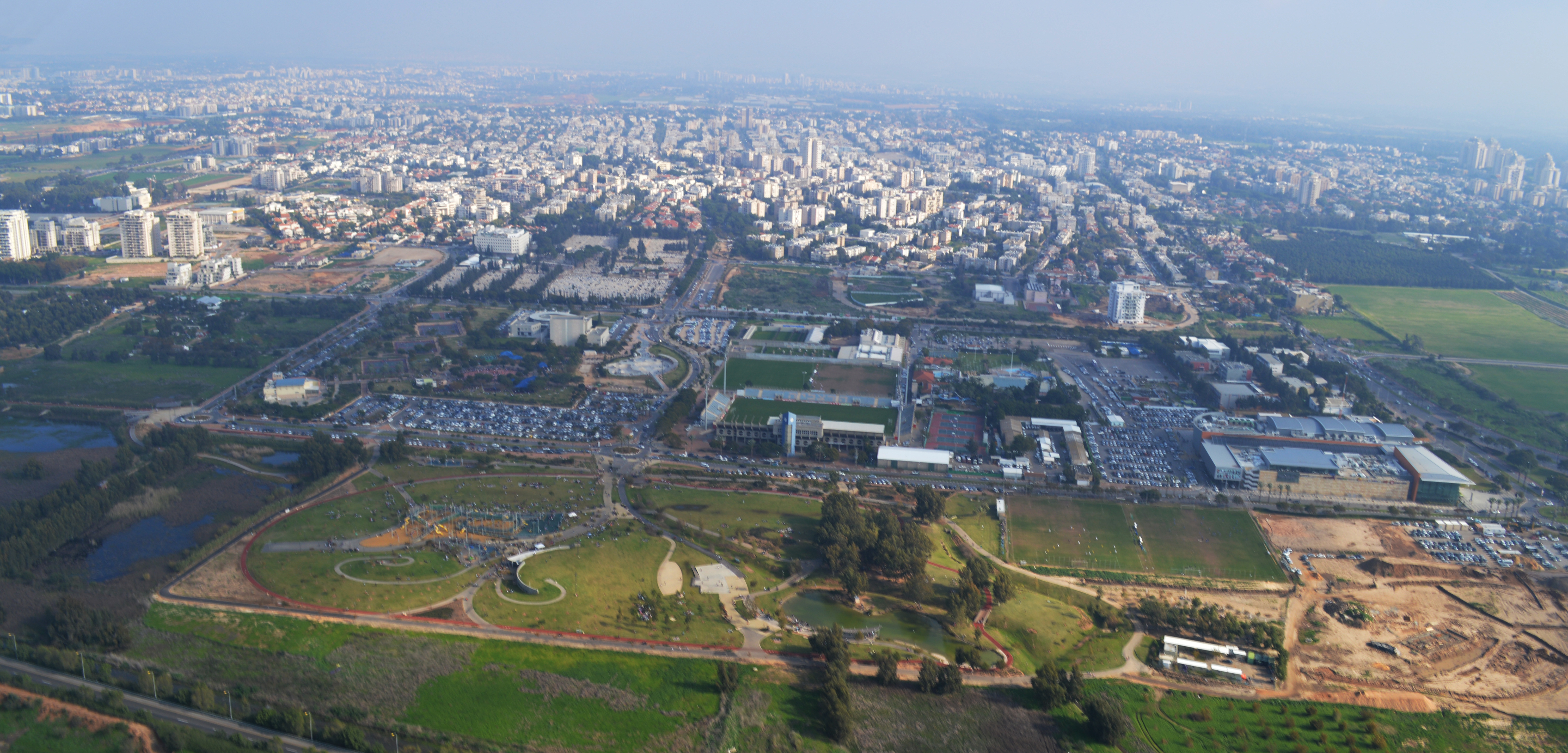 Herzliya Aerial View